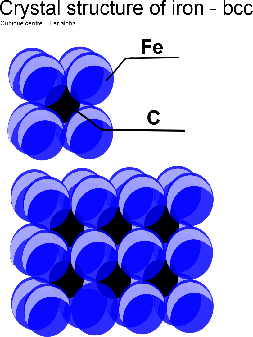 Crystal structure of iron bcc. Structure cristalline du fer alpha. Structure cubique centré.